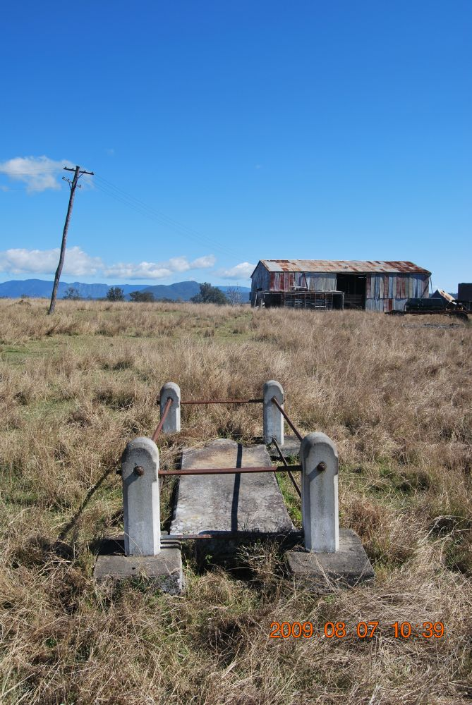 Graveyard (2009), Fassifern Homestead